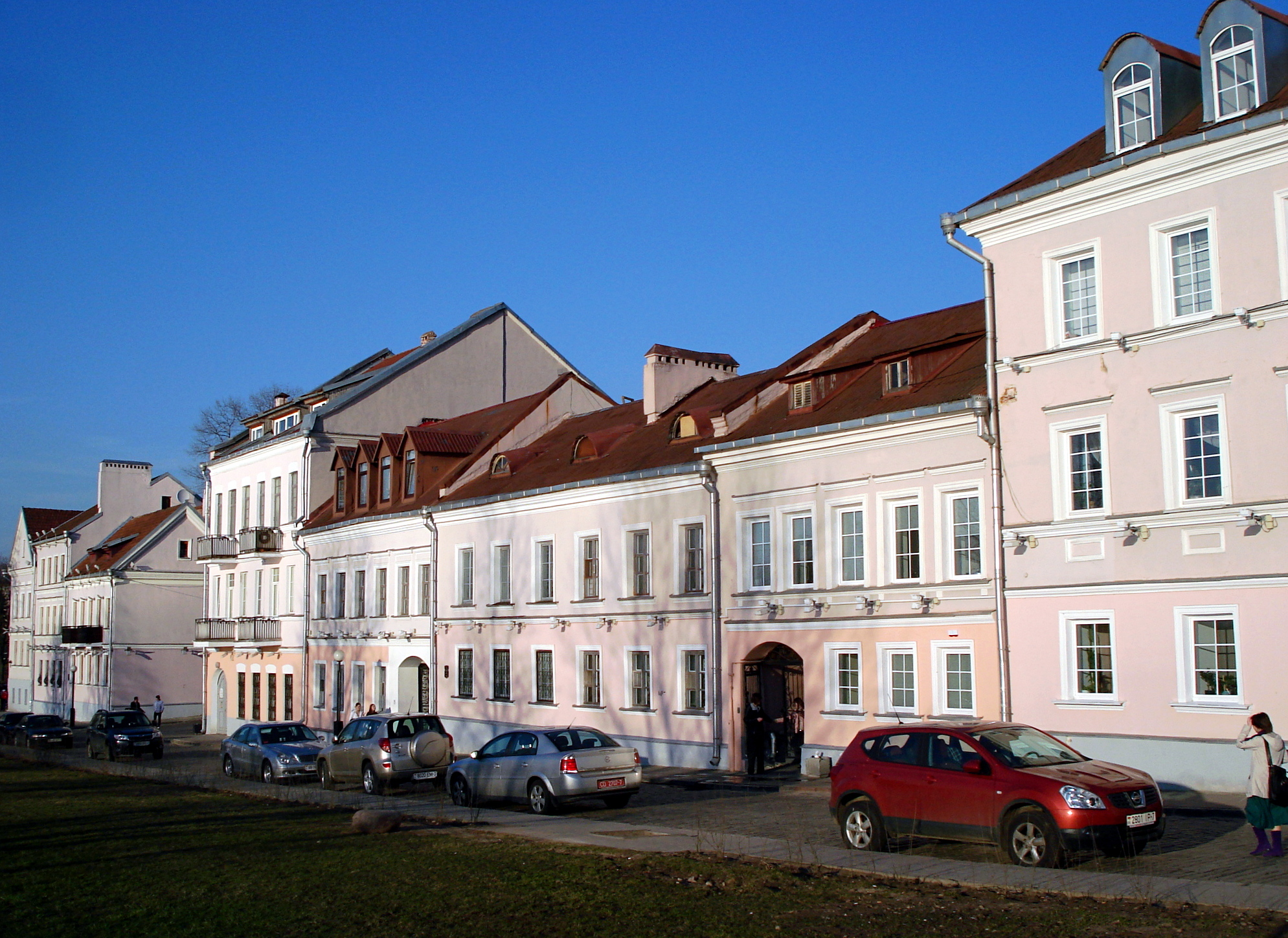 Traeсkaje suburb